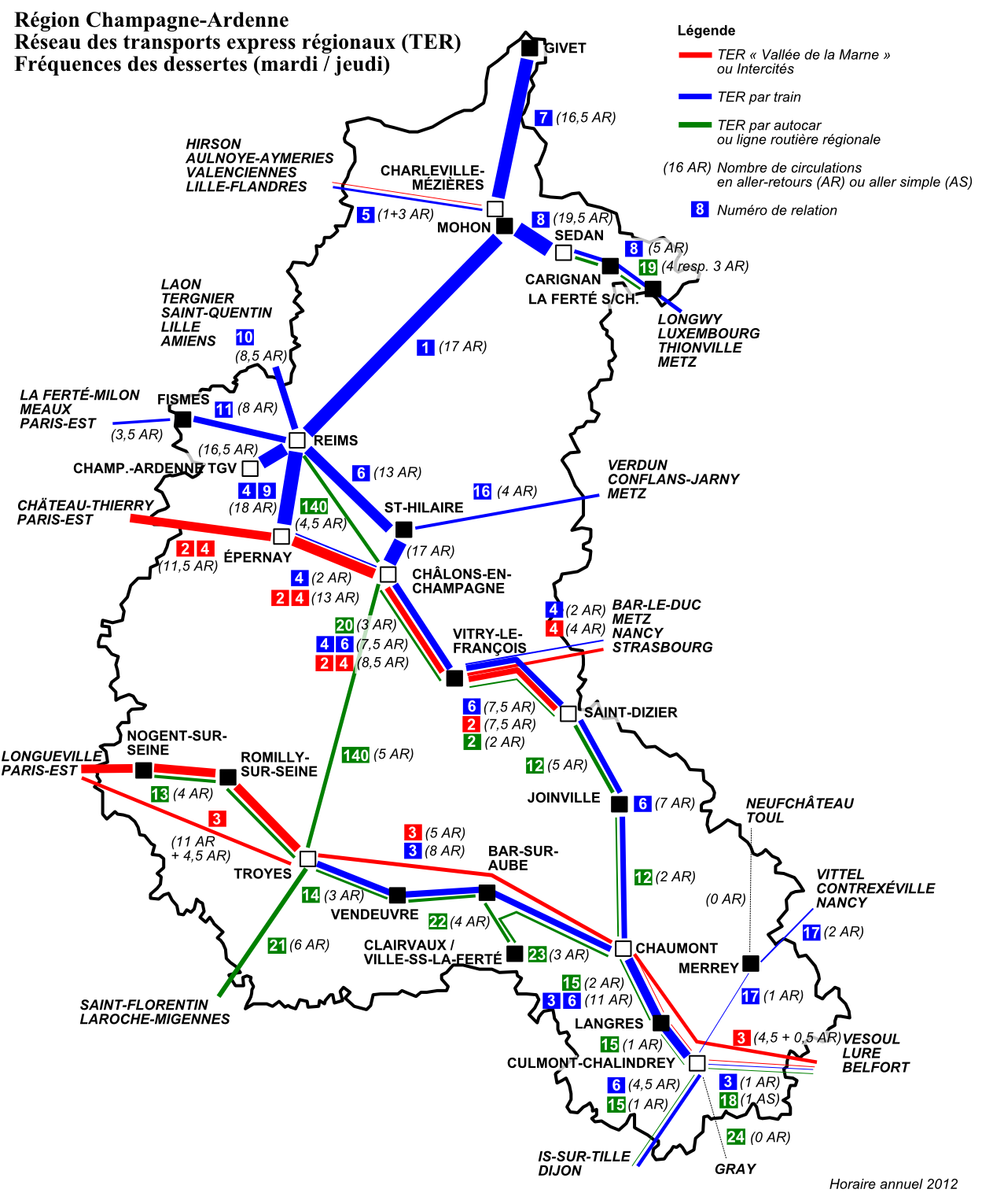 Regional transport network of Champagne-Ardenne : frequence of the service on Tuesdays and Thursdays, annual timetable 2012, without TGV and night trains.